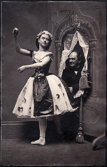 Phineas Taylor Barnum and Ernestine de Faiber Source original: Frederick Hill Meserve Collection, National Portrait Gallery, Smithsonian Institution